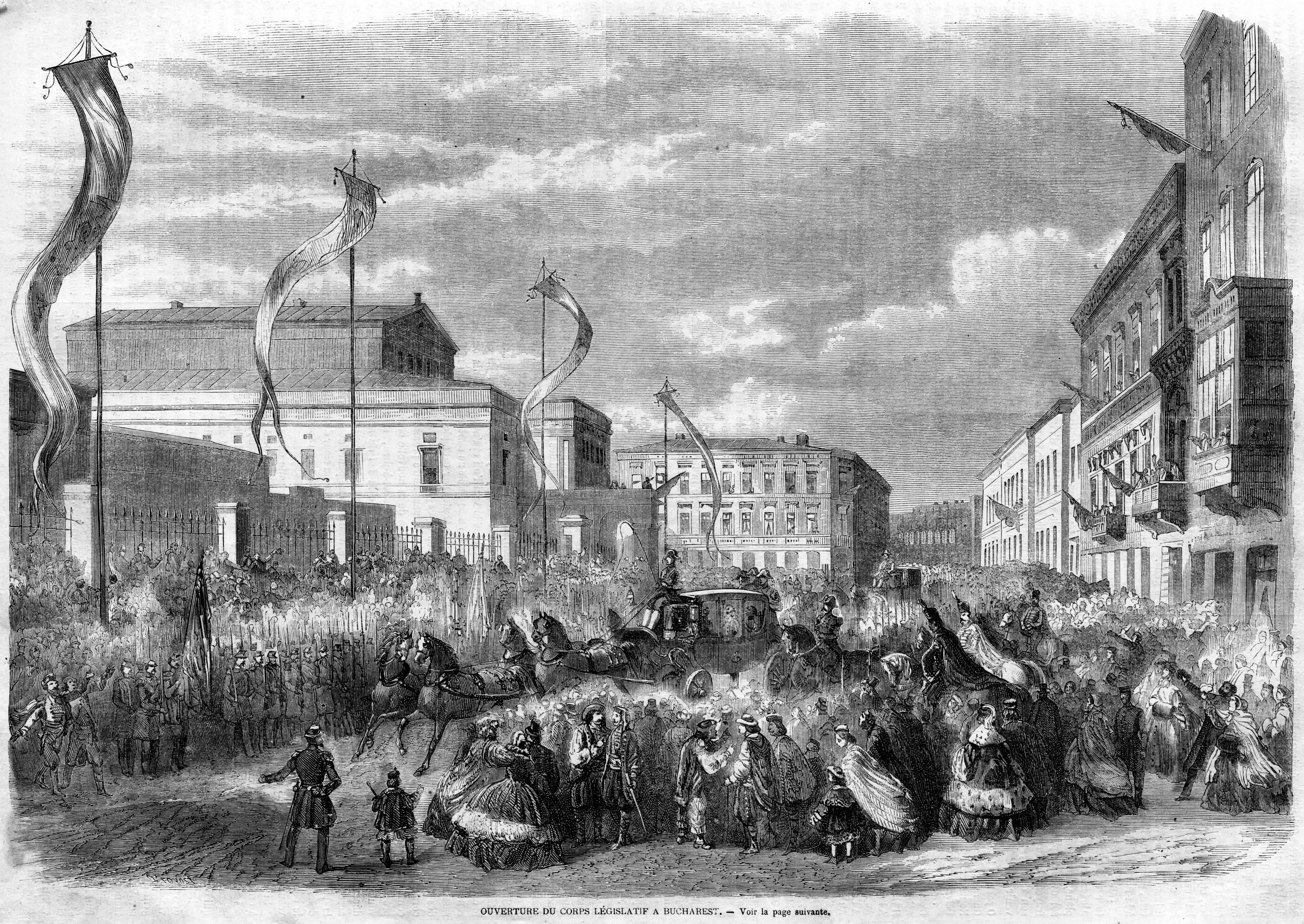 L'Illustration 1862 gravure Ouverture du Corps Législatif à Bucharest